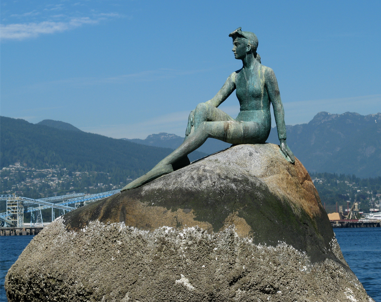 Girl in a Wetsuit statue, Stanley Park. Sculpture by Elek Imredy placed on 9 June 1972